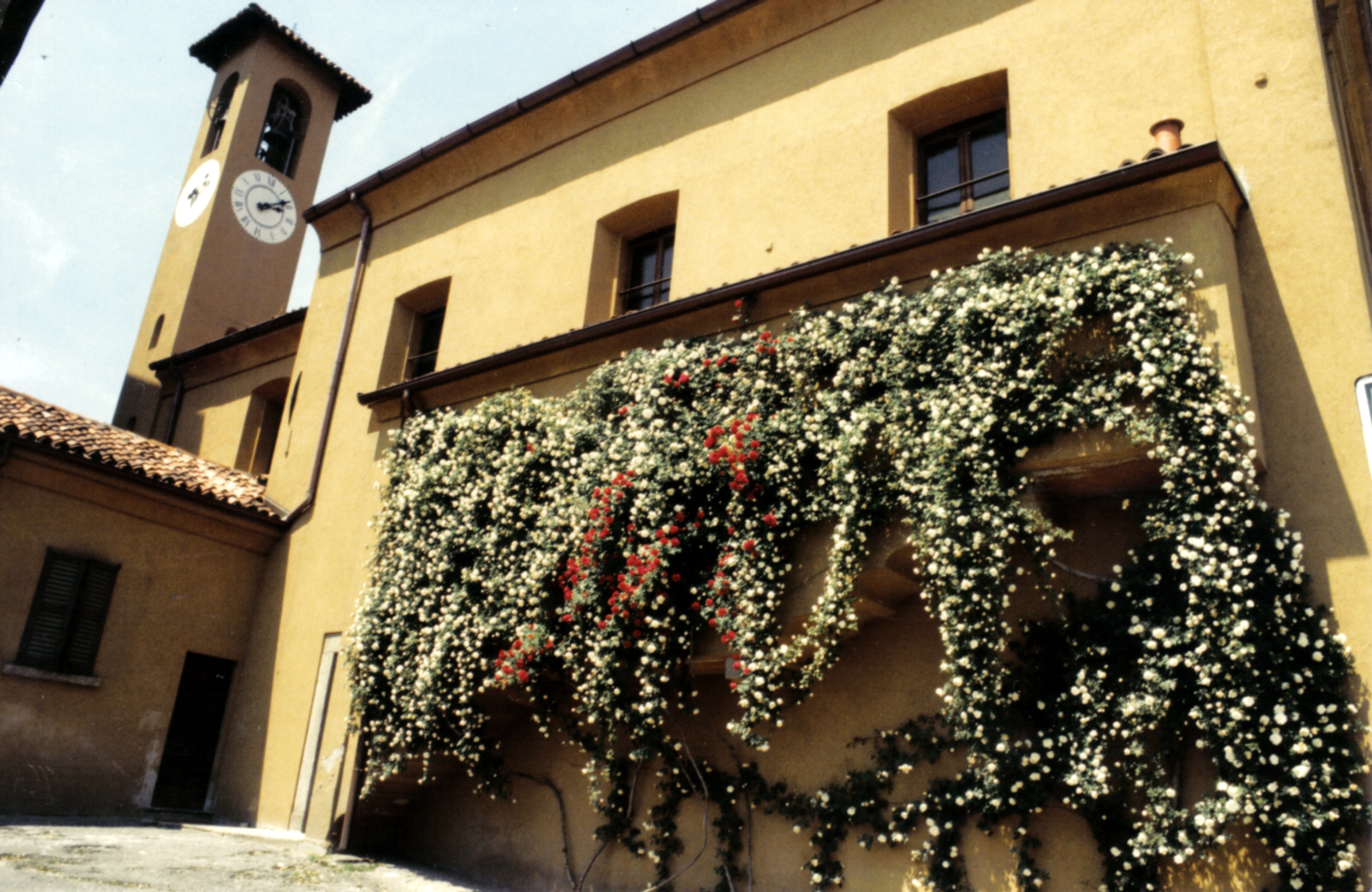 St.Paul church in Imbersago (Lecco), Italy